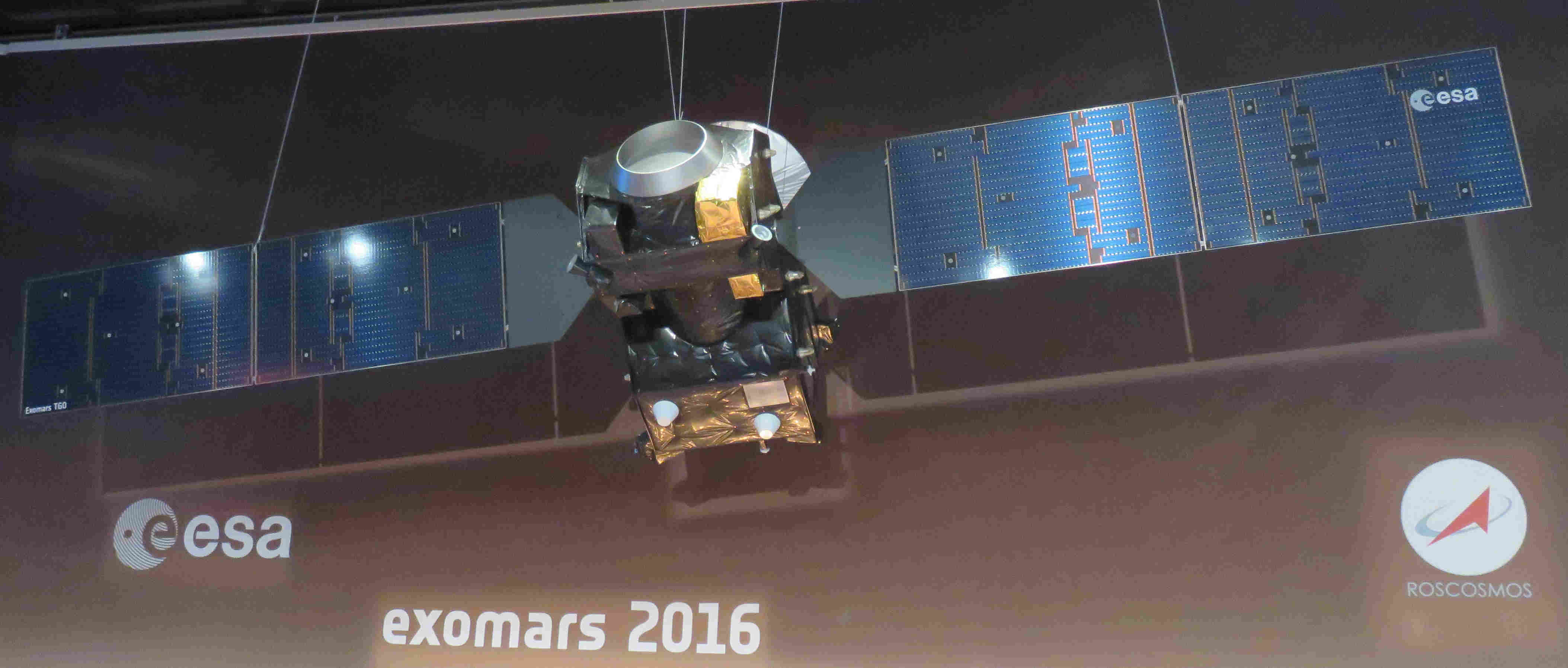 ExoMars Trace Gas Orbiter, seen at ESOC in Darmstadt, Germany